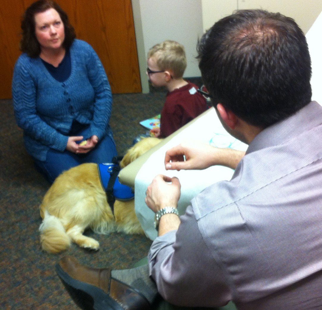 Autism service dog helping calm his boy during visit to the doctor's office.